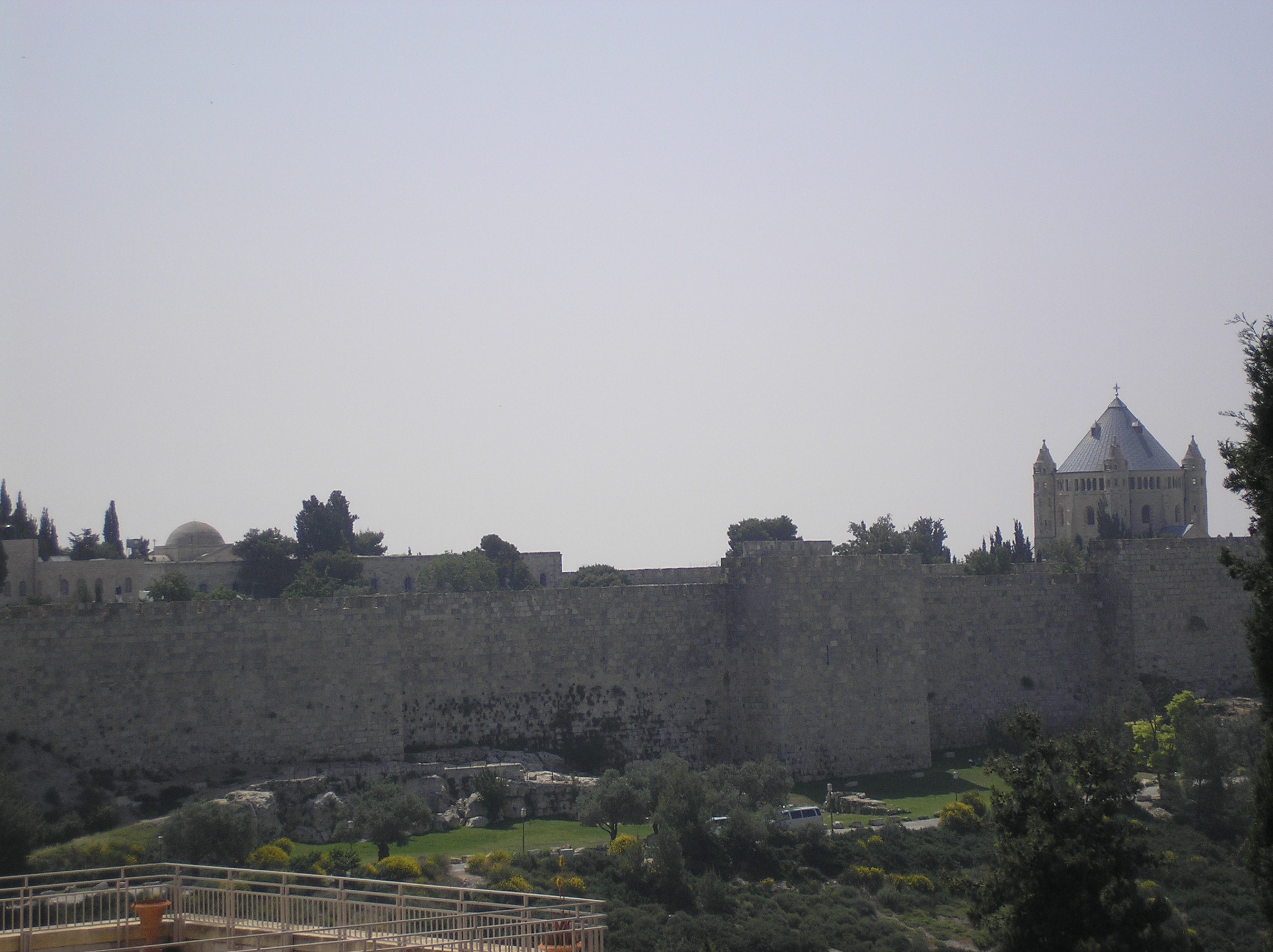 Old City Walls